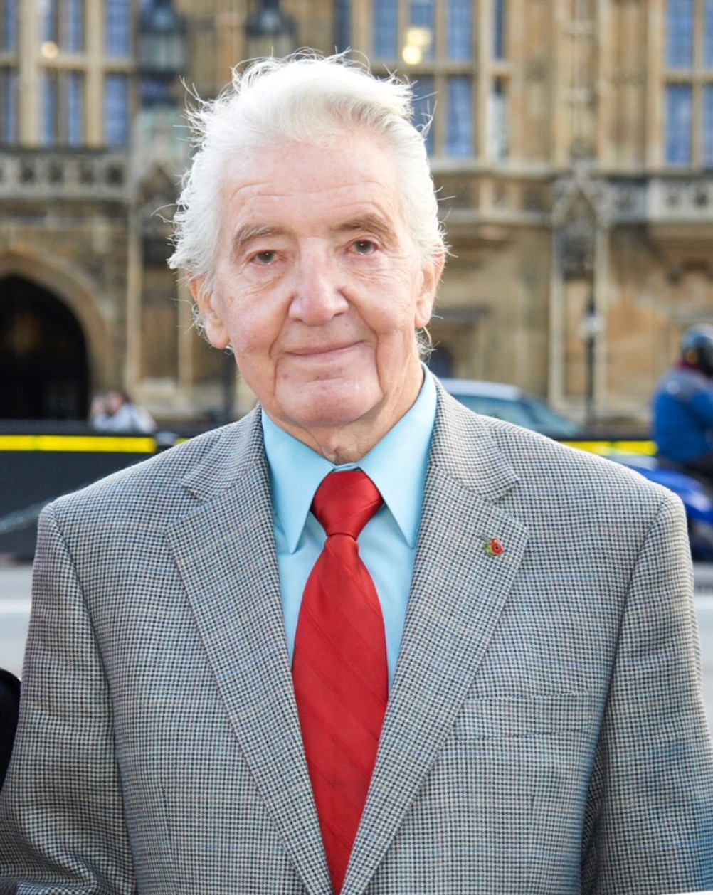 Outside Parliament